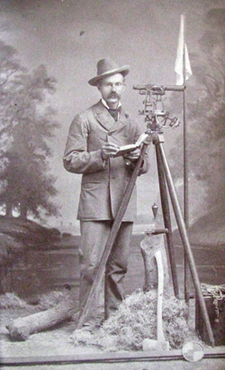 George Roskruge, pioneer Arizona surveyor and prominent Tucsonan. photo taken by Henry Buehman (1851-1912), photo circa 1875